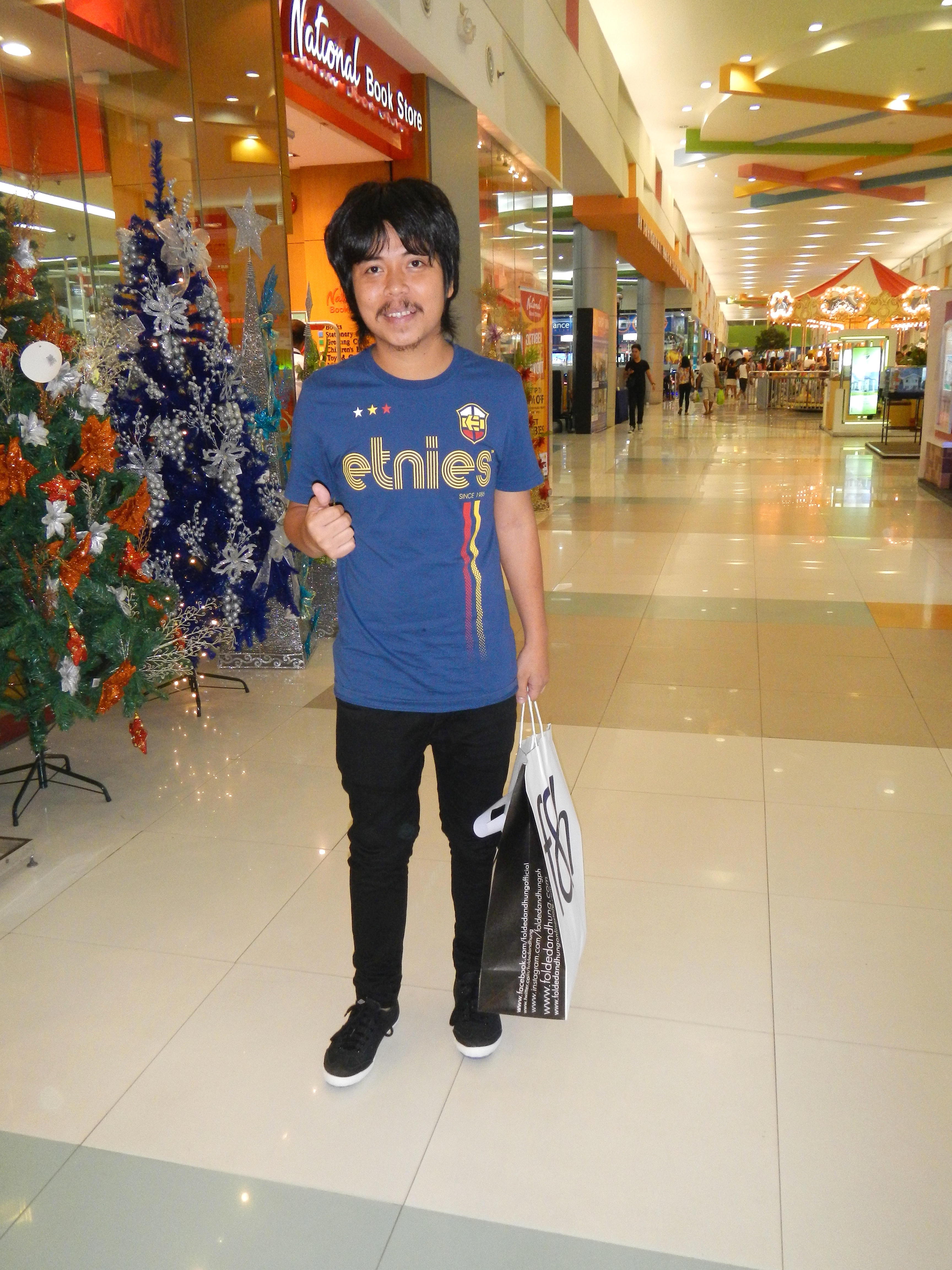 Empoy Marquez Julius "Empoy" Marquez ay isang artista at komediyante mula sa Baliuag, Bulacan, Lokomoko As Lokomoko High Empoy Marquez - Kapitan Awesome Empoy Marquez as Kapitan Awesome May 5,2013-present as Season 2 – 2013 Tropa Mo Ko Unli No. of episodes 28 (as of March 22, 2014) Tropang Trumpo - at SM City Baliwag Bulacan.